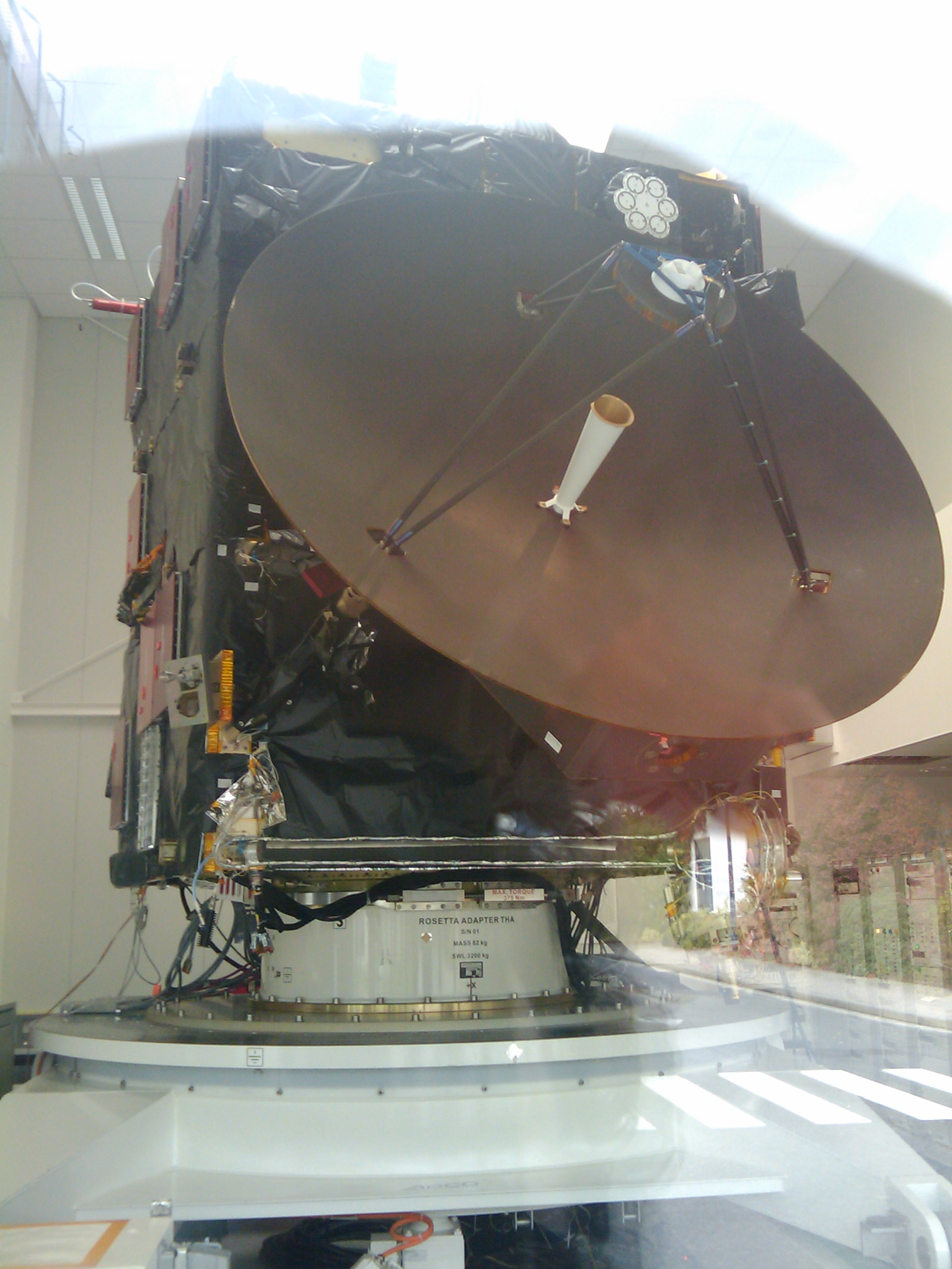 Posted via email from Igor Schwarzmann @ posterous